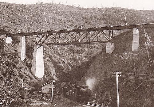 Takaradai Spiral line